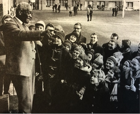 Victor Cornelins entertaining students in Nakskov